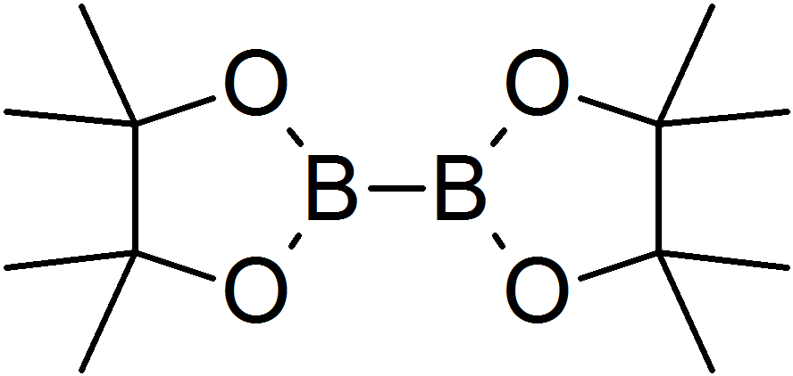 Bis(pinacolato)diboron